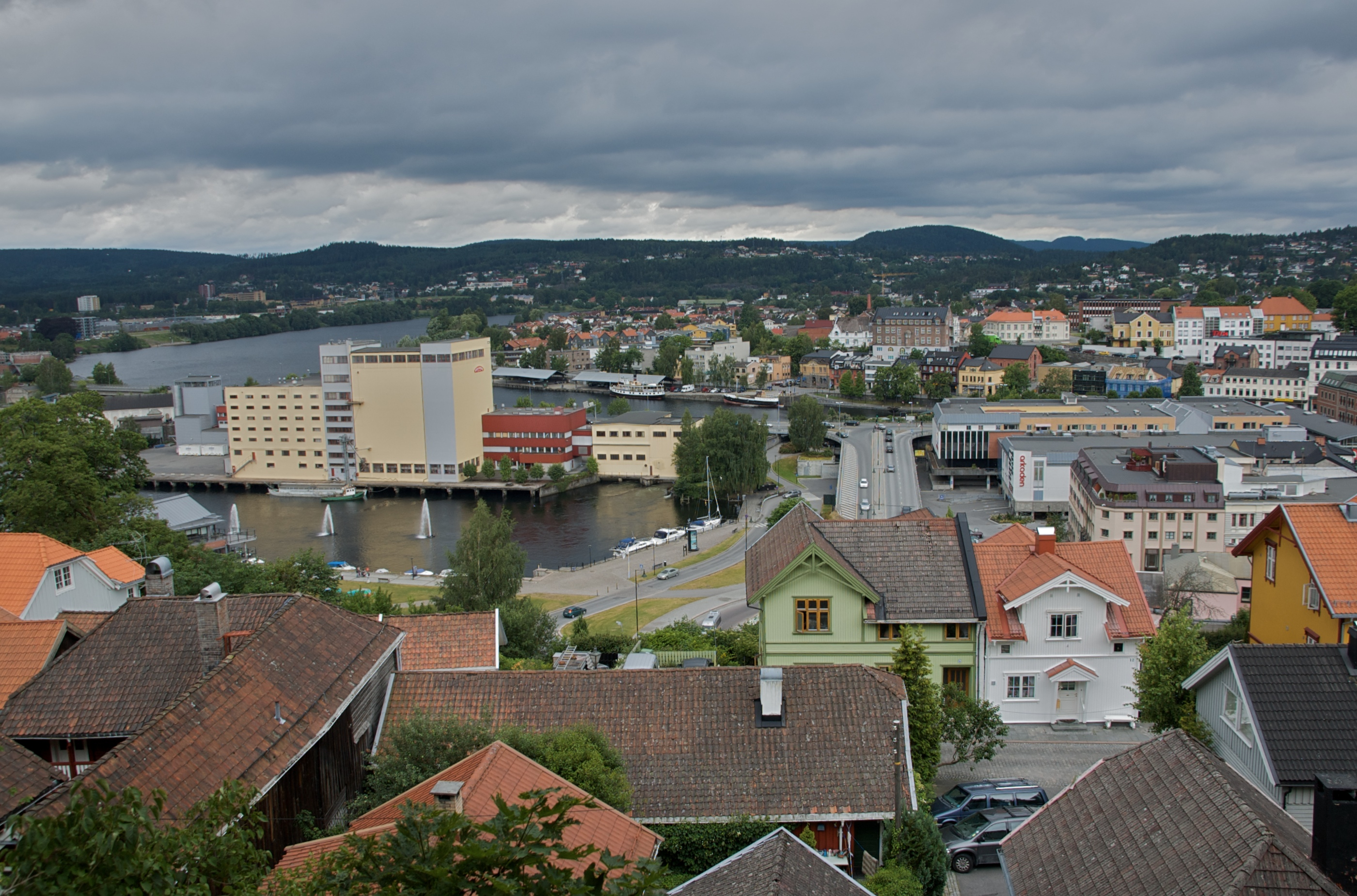 The lakes Bryggevannet and Hjellevannet in Skien, Norway.